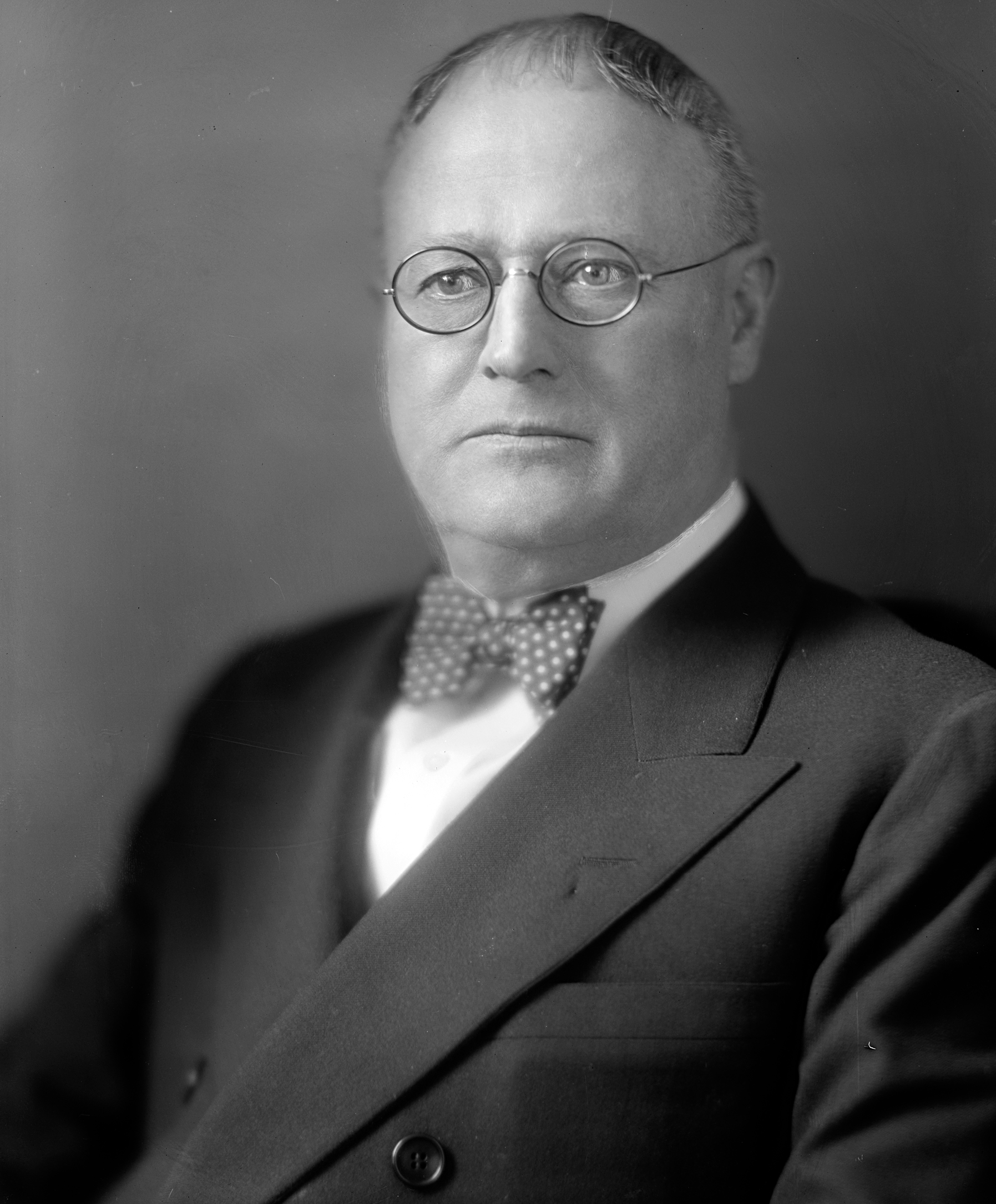 Charles L. Underhill, US Representative from Massachusetts